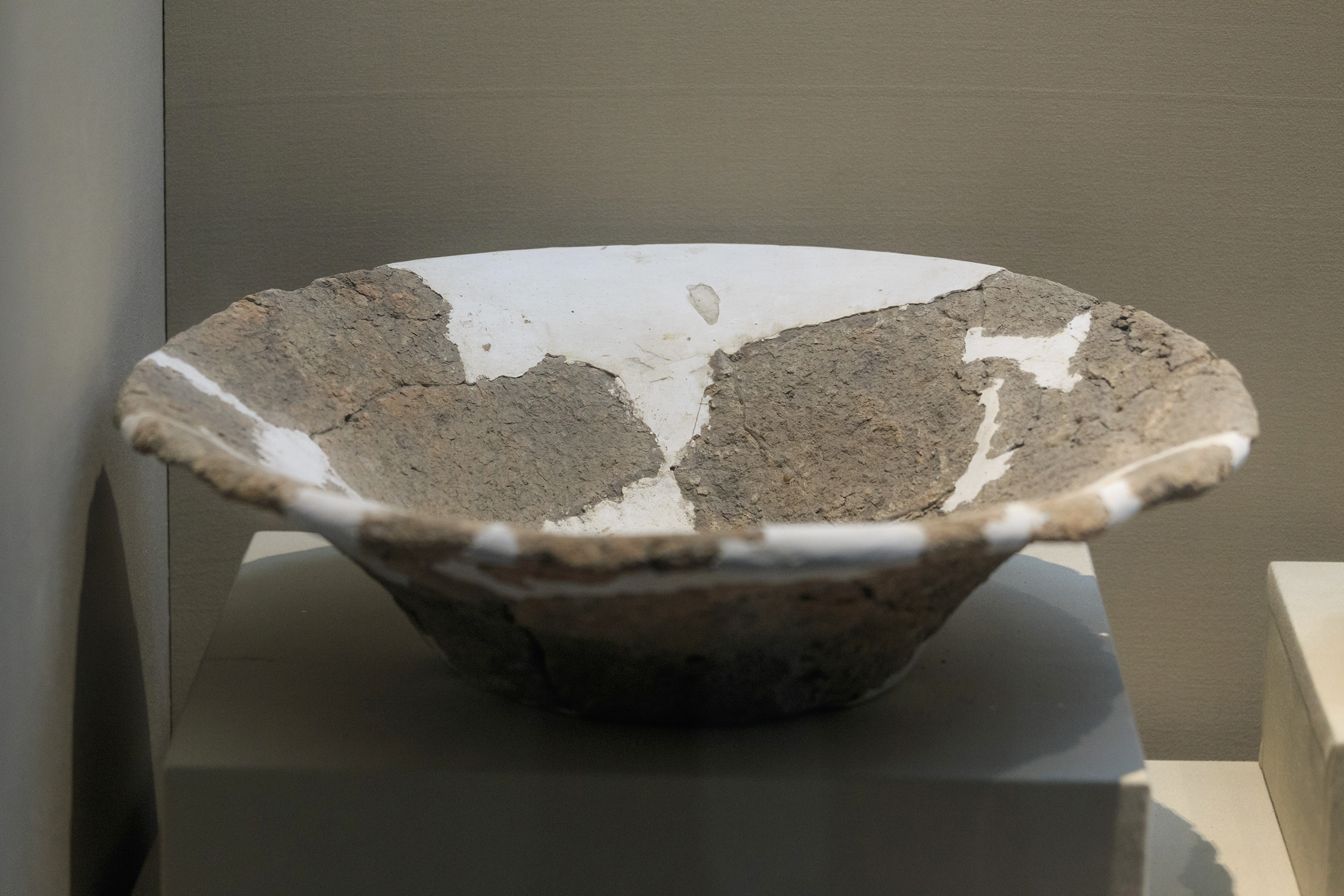 Basin, terracotta. Shangshan Culture (12,000 - 8,000 BP). Zhejiang Museum.